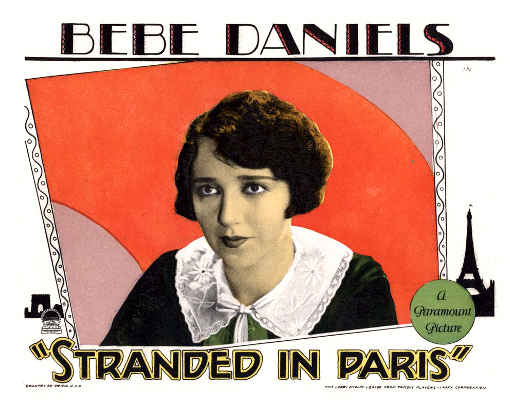 Lobby card for the American comedy film Stranded in Paris (1926). There are no copyright marks on the item. At lower left is Country of origin USA. At lower right is This lobby display leased from Paramount Famous Players Lasky Corporation.